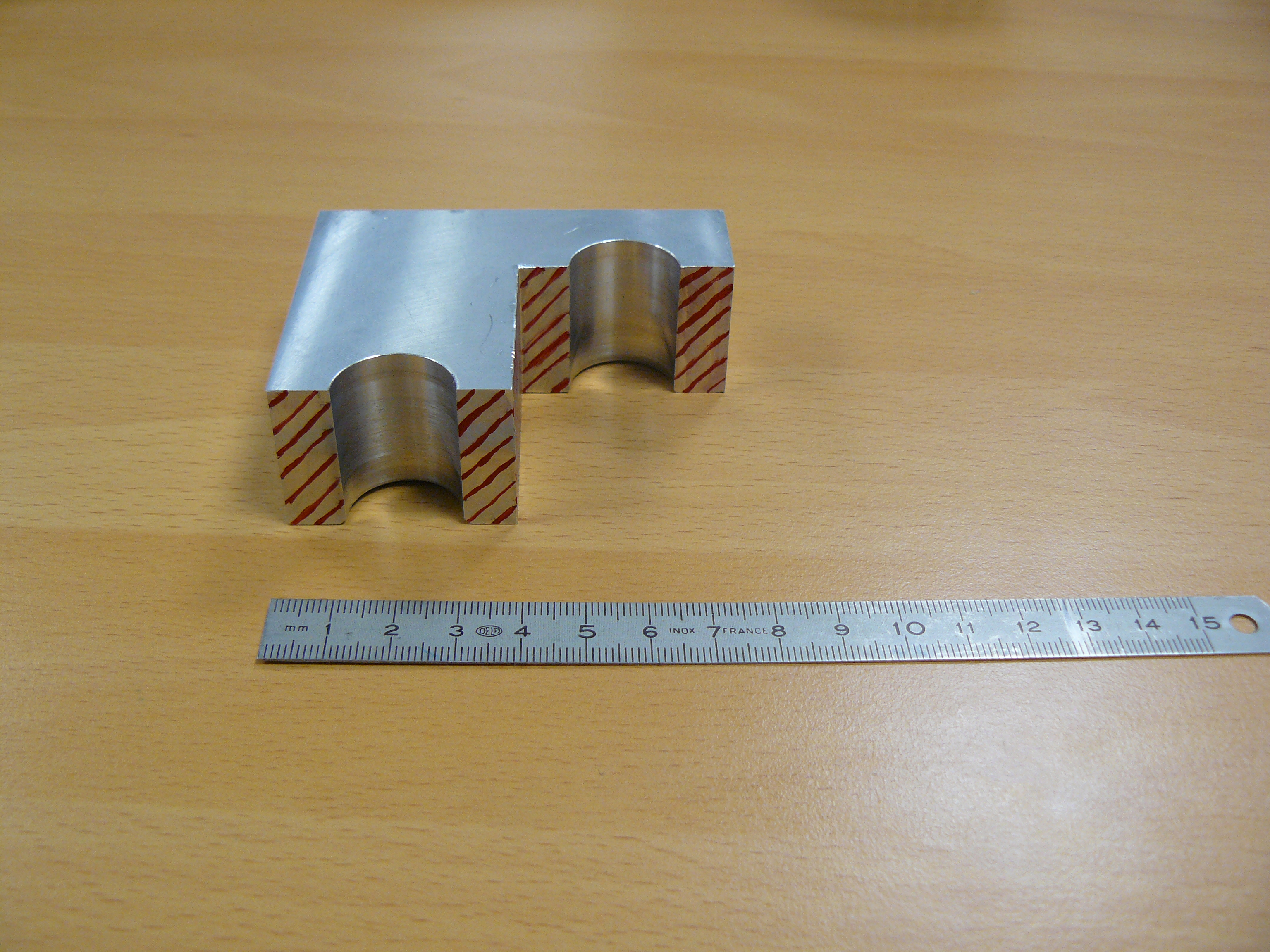 Real cross-section of a part, through parallel planes (see File:Maquette plan cc pct couvercle.svg).